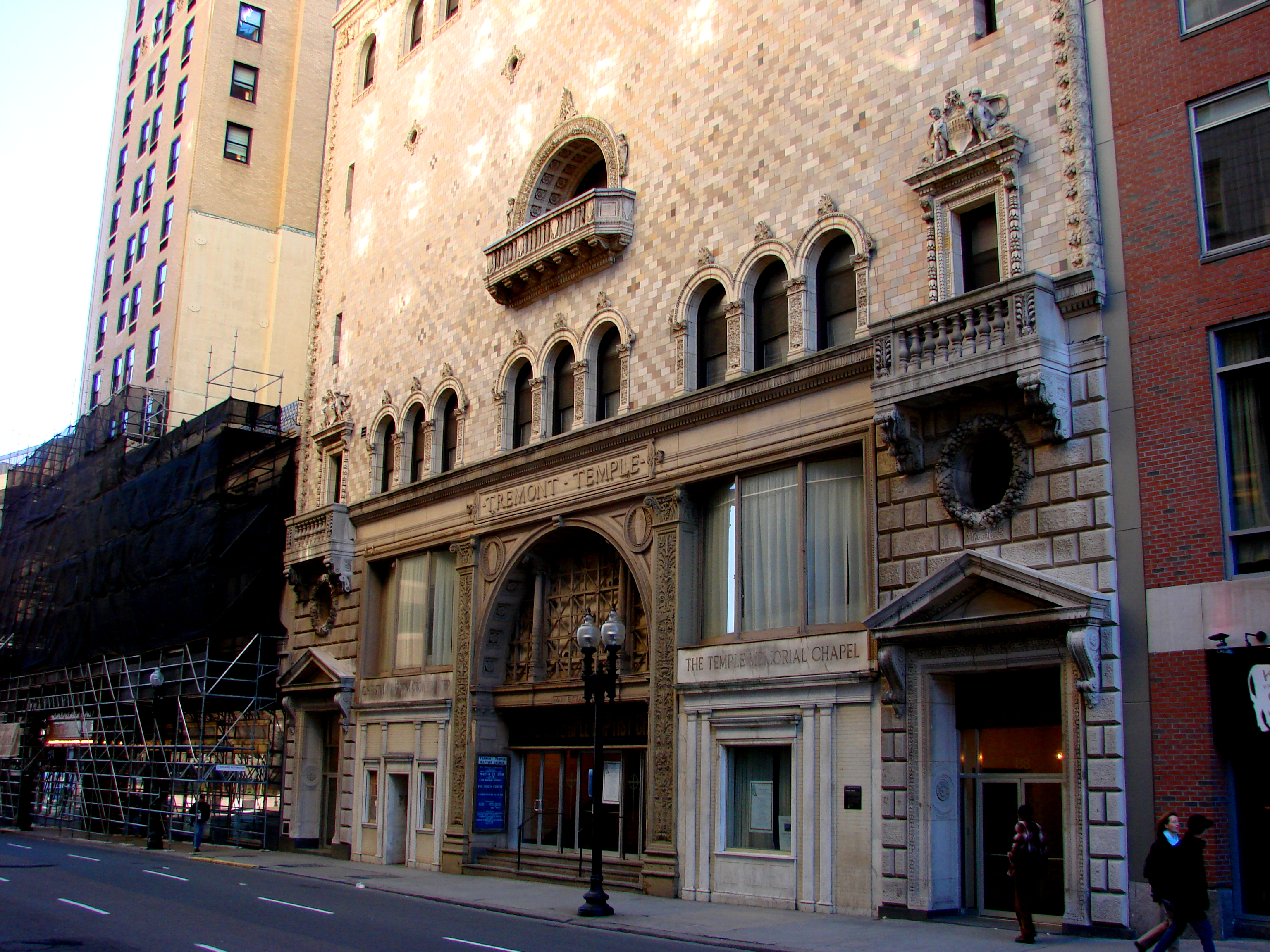 2008-03-22 03-23 Boston 027 Tremont Temple